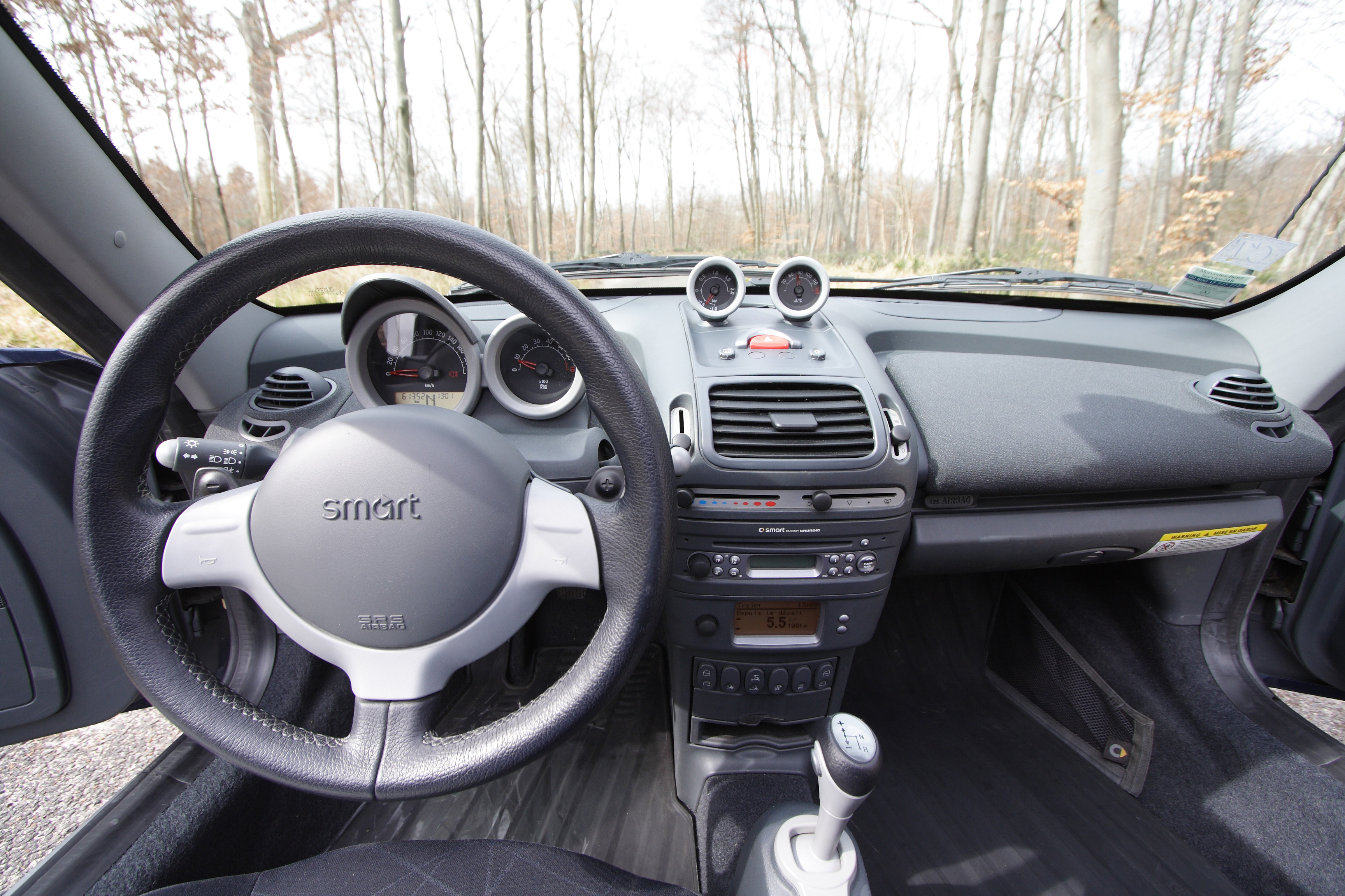 Smart Roadster Coupé. This is a 2004 model, serial number 37040 out of 43091, with a Star Blue (C85L/EAF) paint and grey Tridion (C02L/EB2). It is equipped with sport pack and comfort pack. Picture taken with a Canon EOS 350D and Canon EF-S 10-22 @10mm.